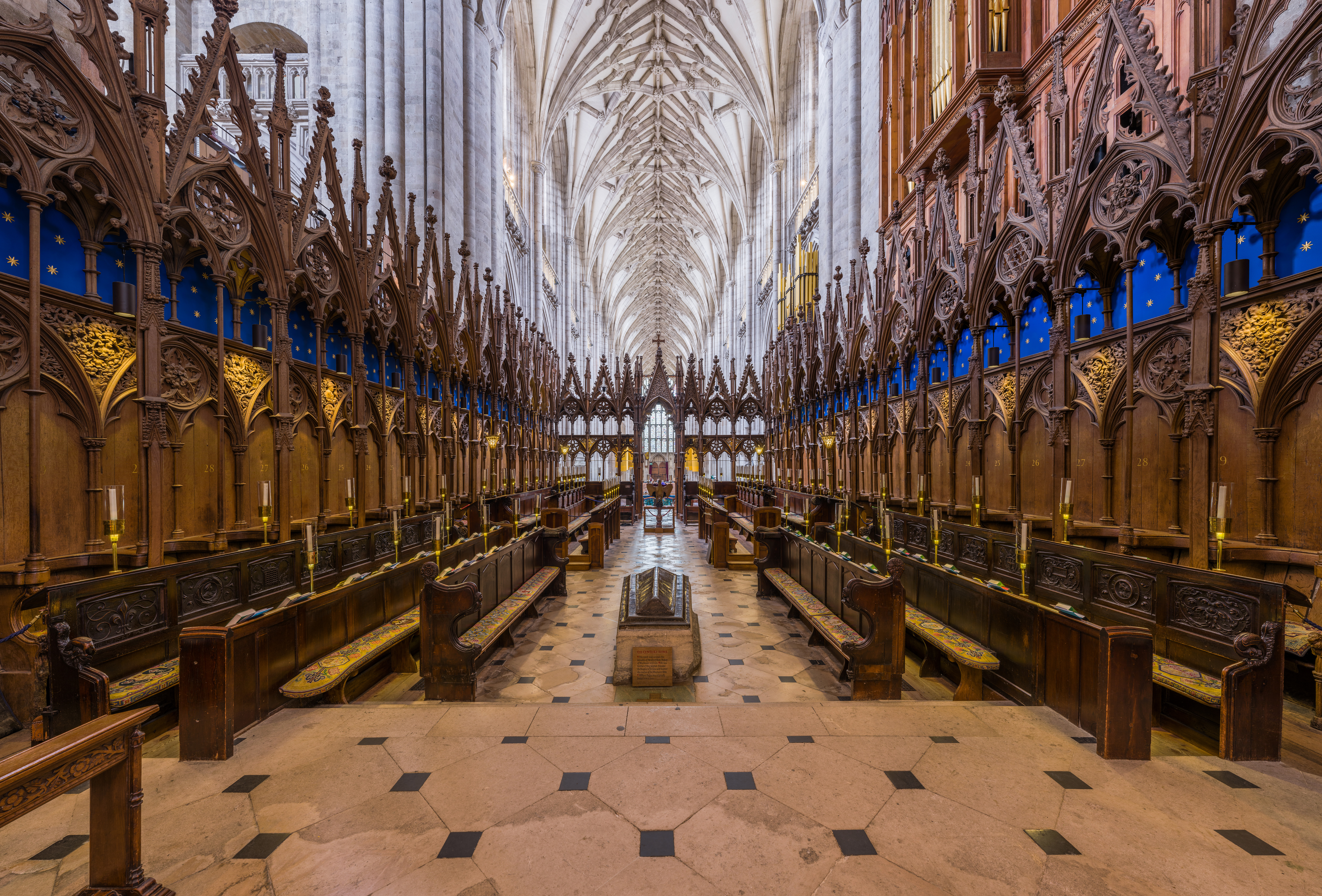 Winchester Cathedral Choir looking west.